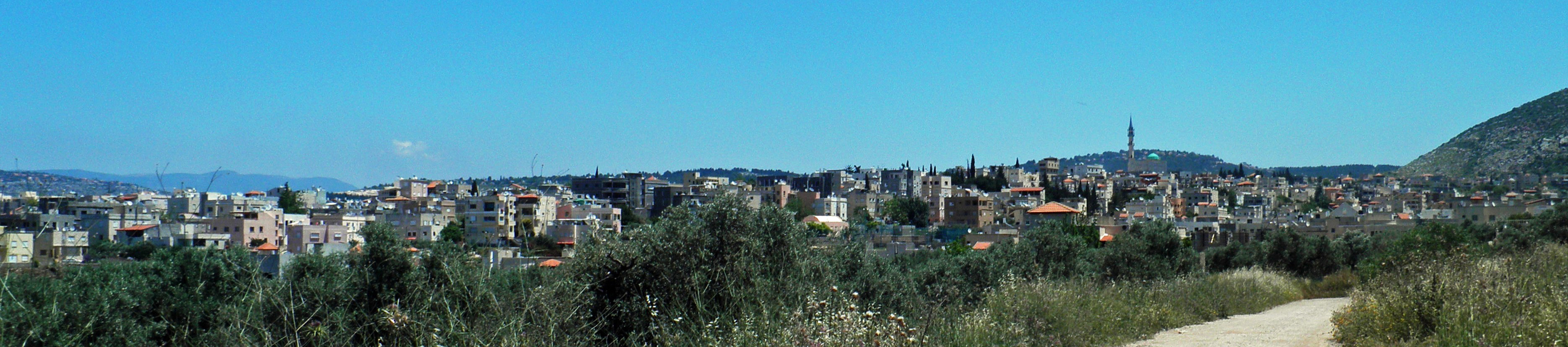 overview of the village of Kabul, Israel